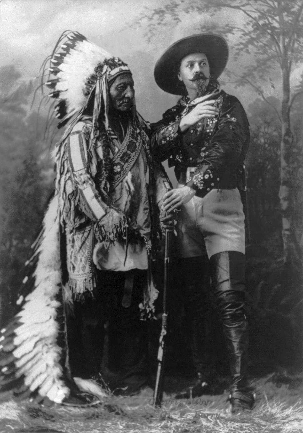 Sitting Bull and Buffalo Bill, 1895